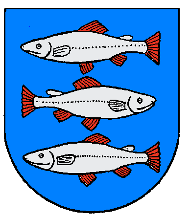 Coat of arms of the Ångermanland province in Sweden. A design with one salmon was first present by the funeral of King Gustav Vasa in 1560. The version with three salmons was registered in 1885.